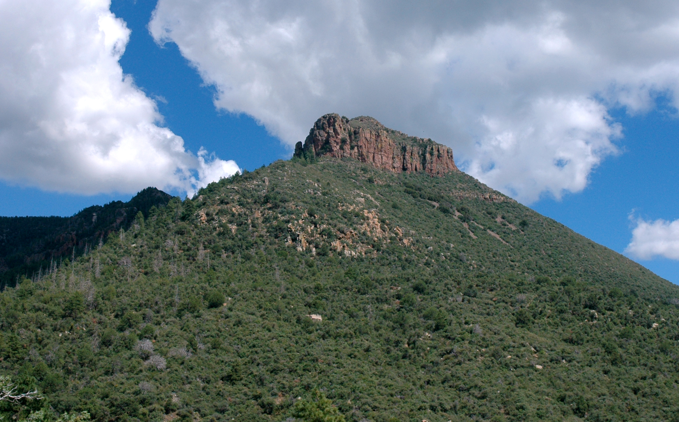 Grantham Peak, 6591 ft., in the Sierra Ancha mountain range or Arizona.